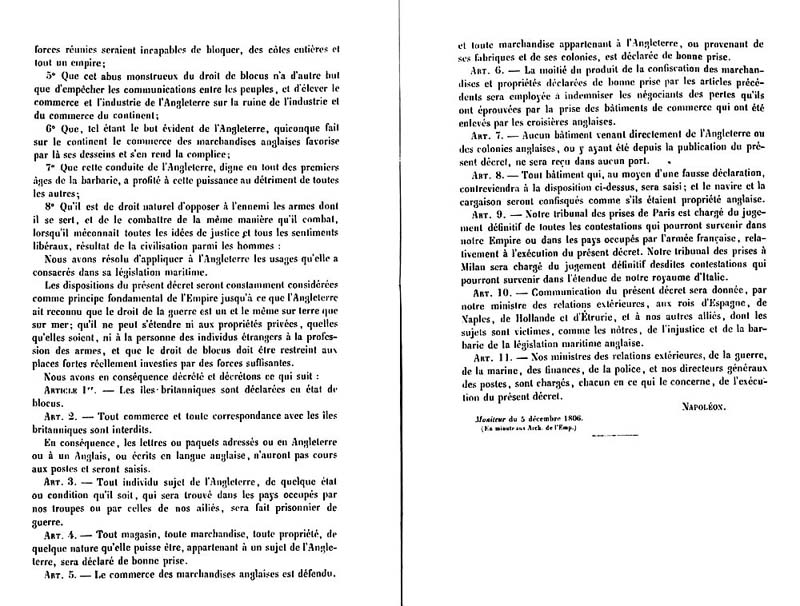 Treaty of Berlin, signed 21 November 1806. Pages 2 and 3 of 3.